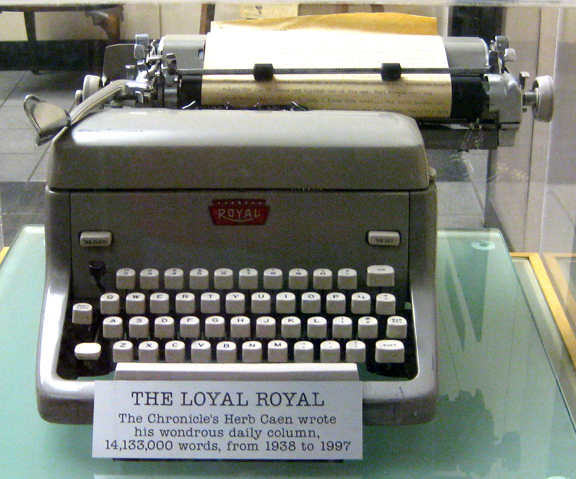 "Loyal Royal," typewriter of Herb Caen, longstanding columnist of the San Francisco Chronicle, on display in the lobby of the Chronicle Building on 5th Street in San Francisco, CA